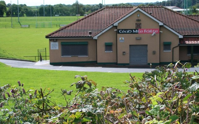 The Club House at the Thomas Russell Park GAA Club Cead Mile Failte simply means "a hundred thousand welcomes".